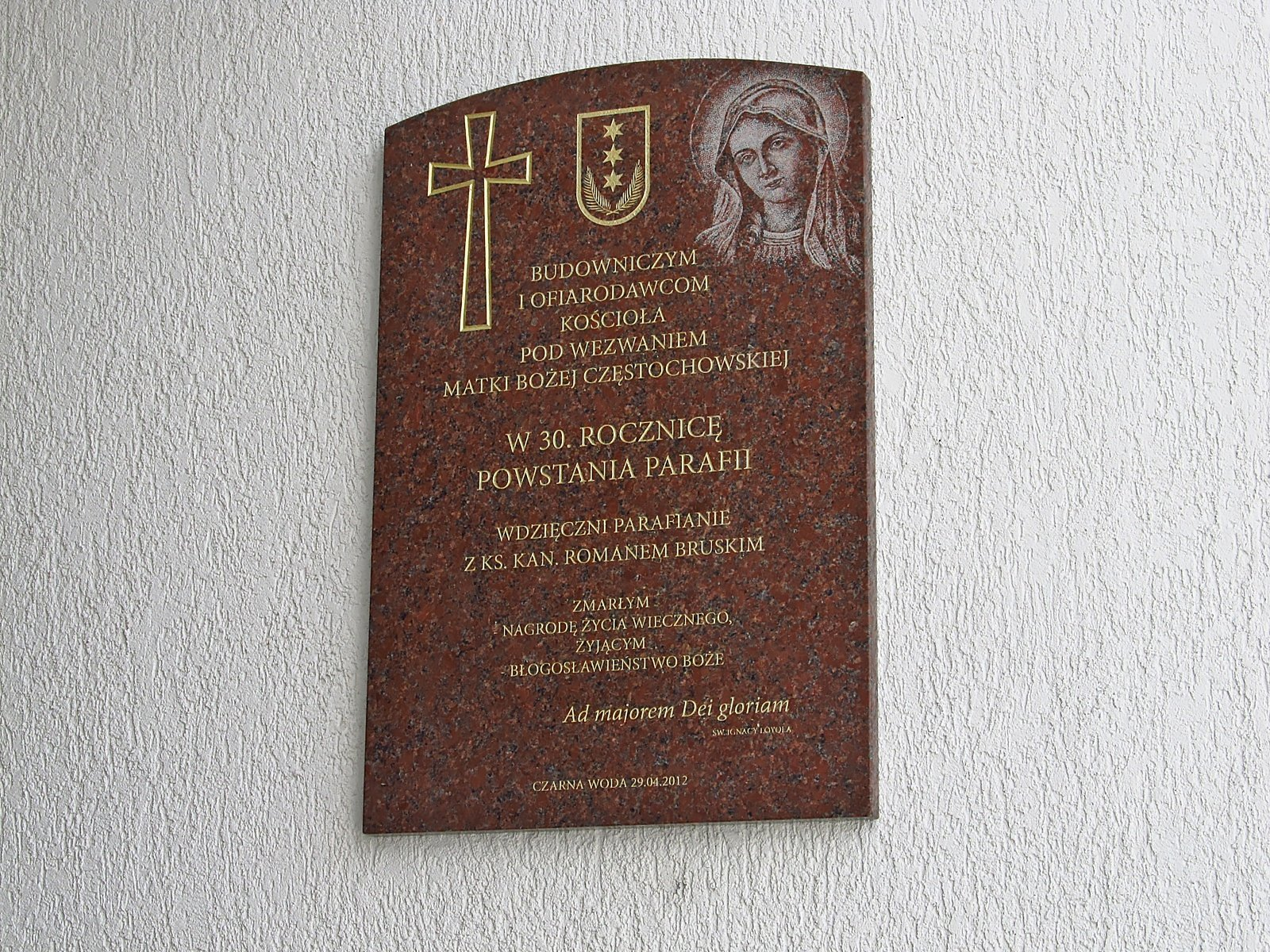 Commemorative plaque to celebrate the 30th anniversary of the Parish